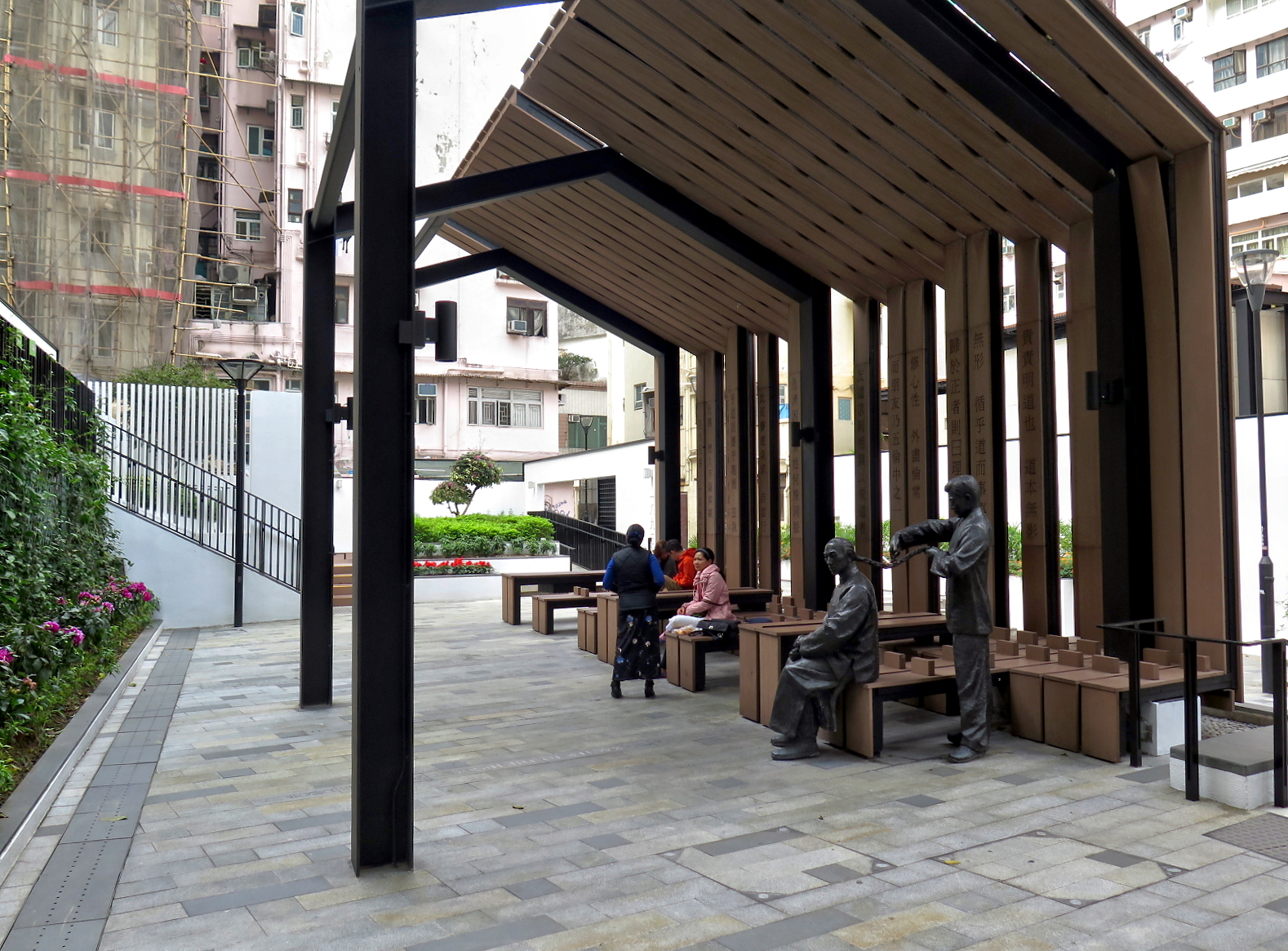 Pak Tsz Lane Park Feature Pavilion